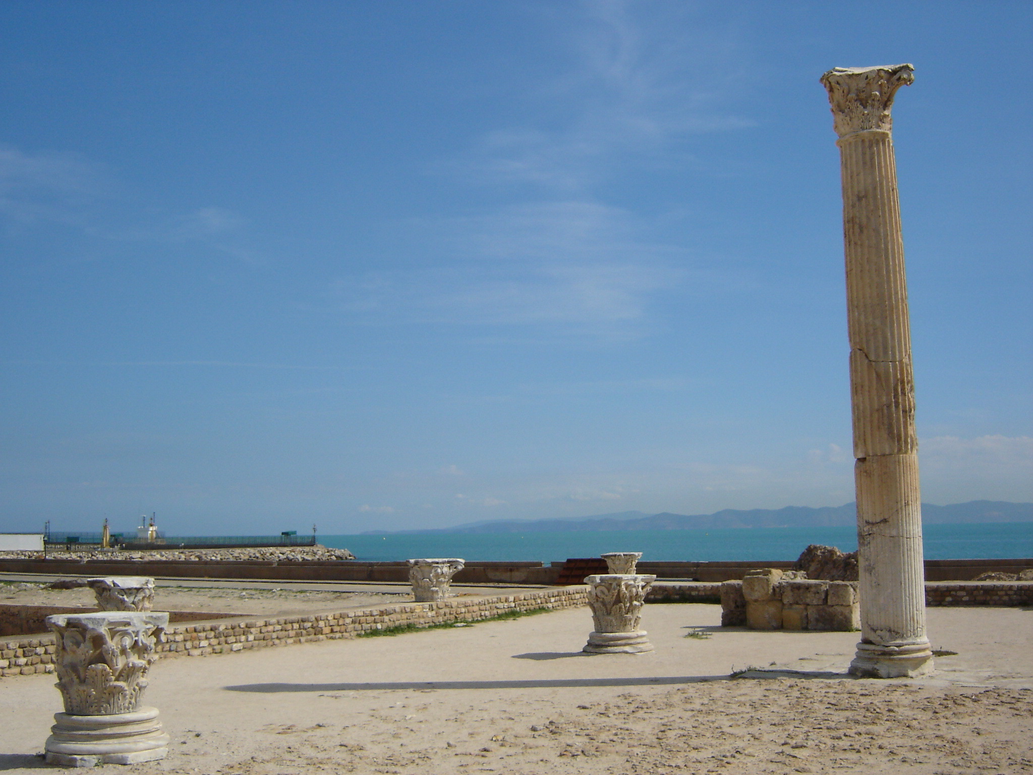 Column at the excavation site of the Antoninus Pius Therms in Carthage Source: Self-made, October 2004 Author: BishkekRocks